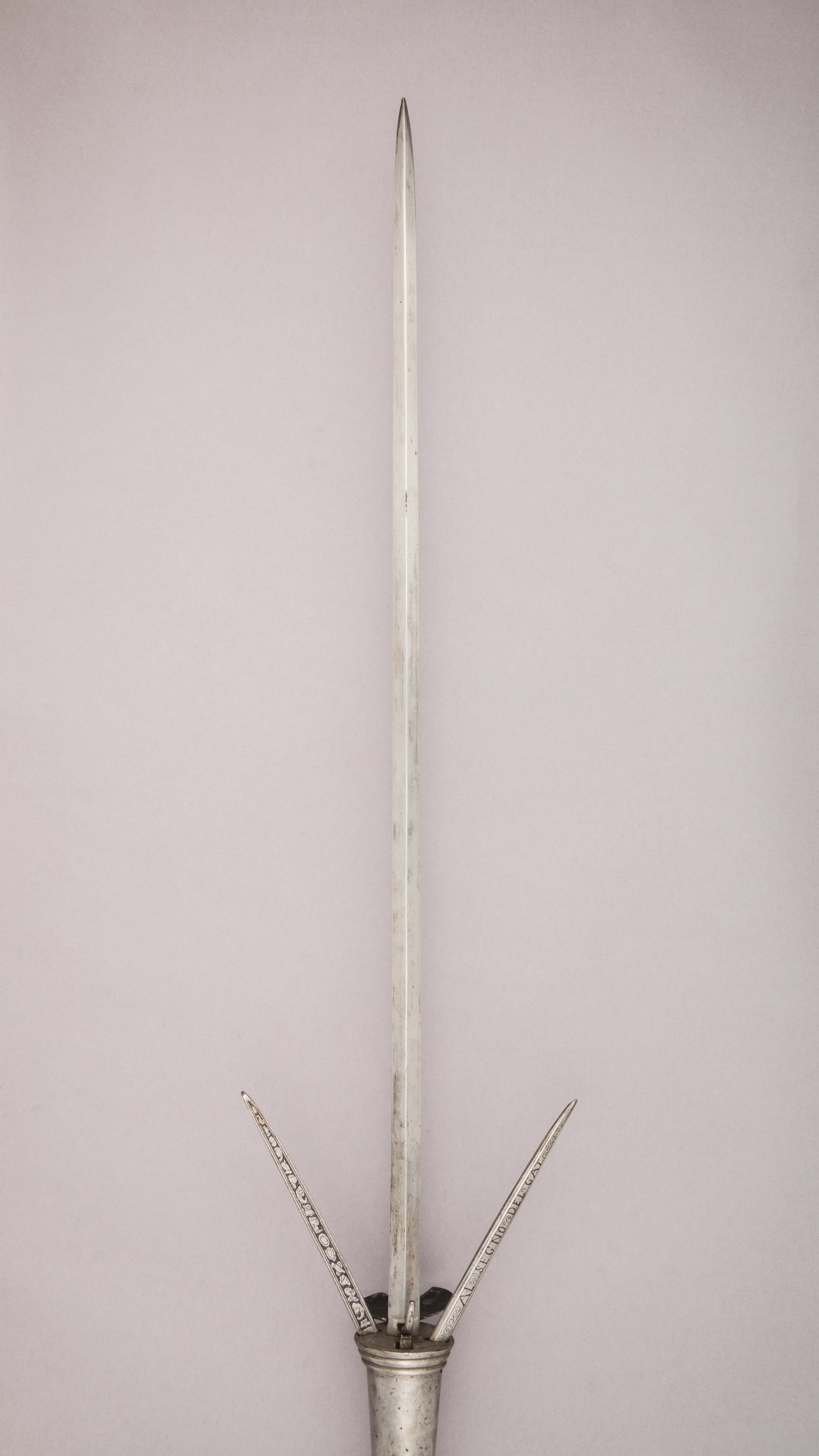 Italian; Staff weapon; Shafted Weapons